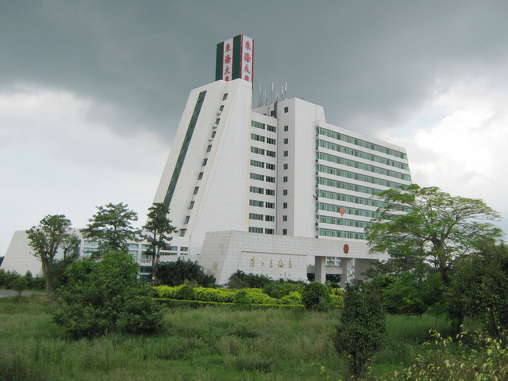 Zhanjiang City, East Island Economic Development Experimental Zone _ Tokai Building